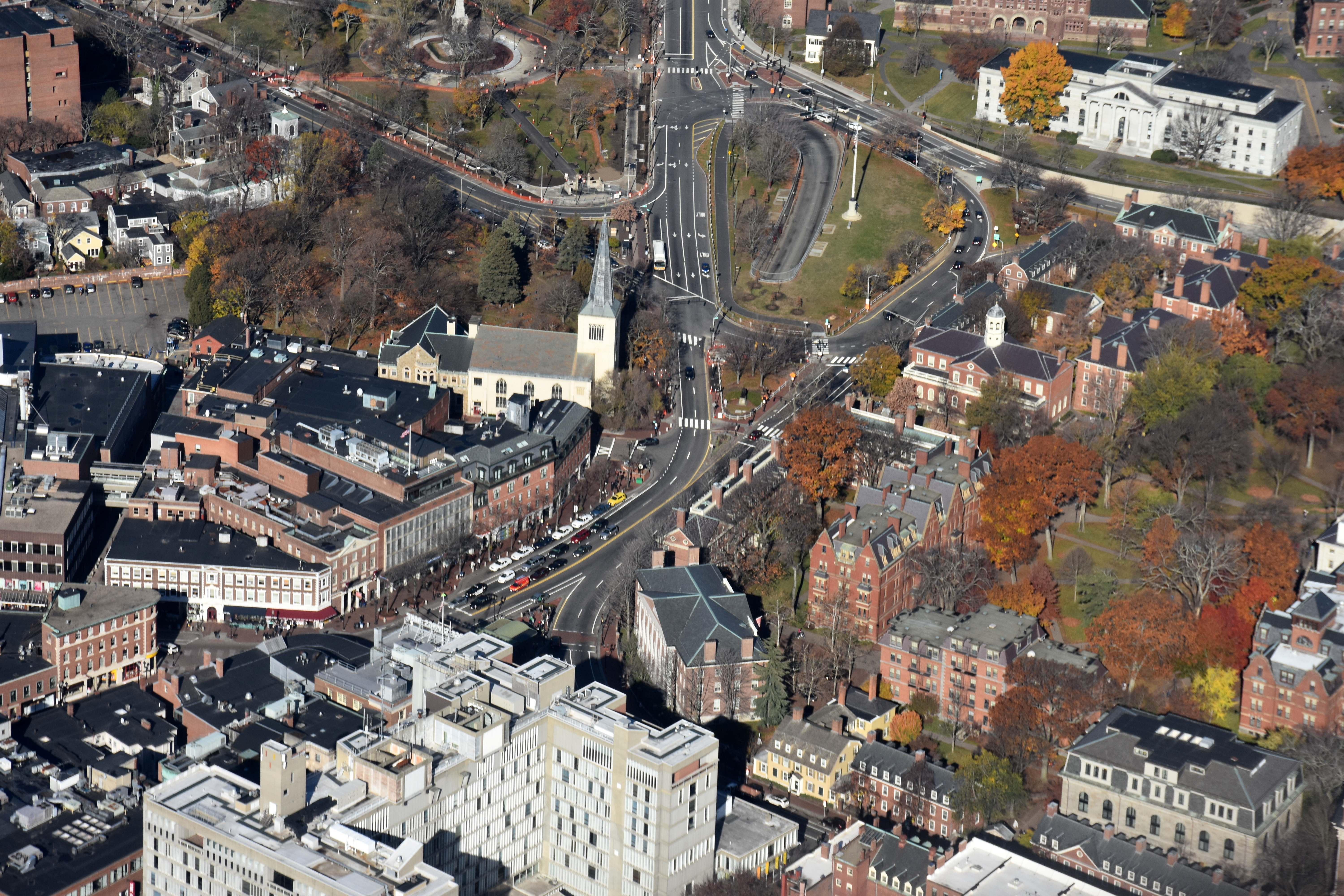 Aerial view of Harvard Square, including Old Yard portion of Harvard Yard and First Parish Cambridge. Please use with attribution to Nick Allen